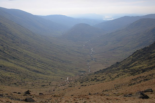 Trout Beck From Thresthwaite Mouth With Windermere far right of centre.